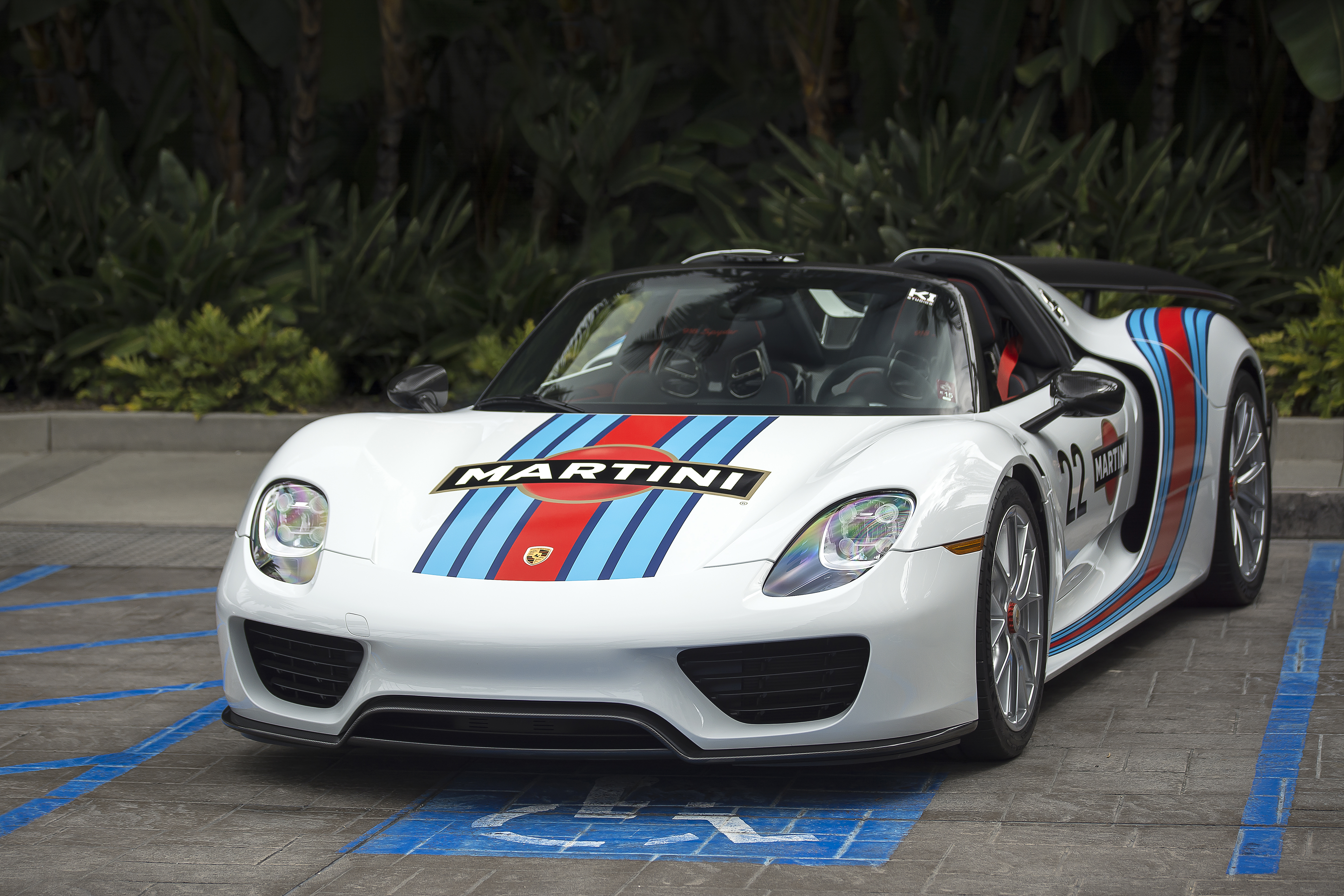 Porsche 918 Spyder Martini Racing Edition at Targa Trophy